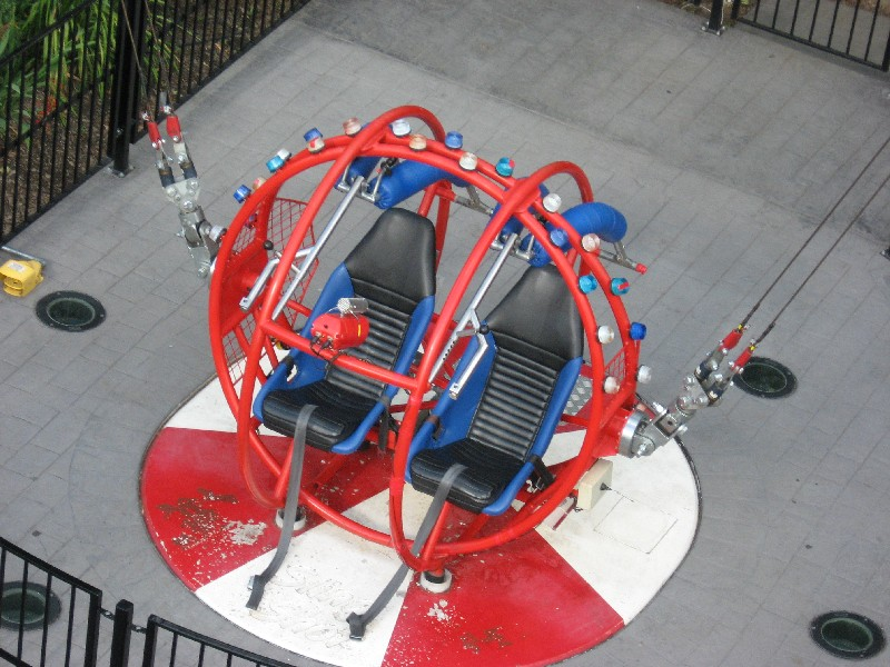 The Cataputl capsule waiting for riders at Lagoon